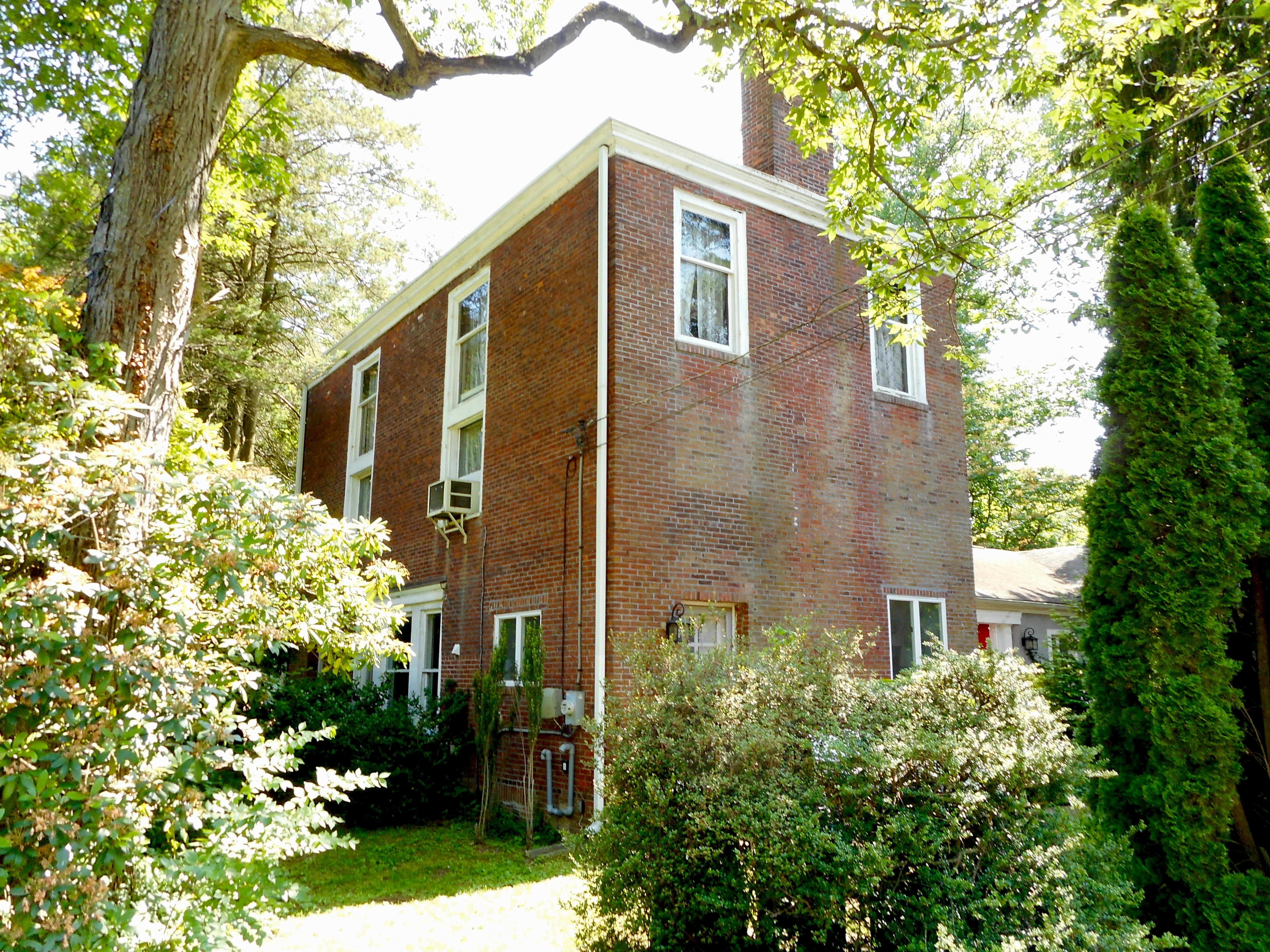 The Horace Howard Furness Library building in Lindenshade in Wallingford (Nether Providence Township, Delaware County), Pennsylvania